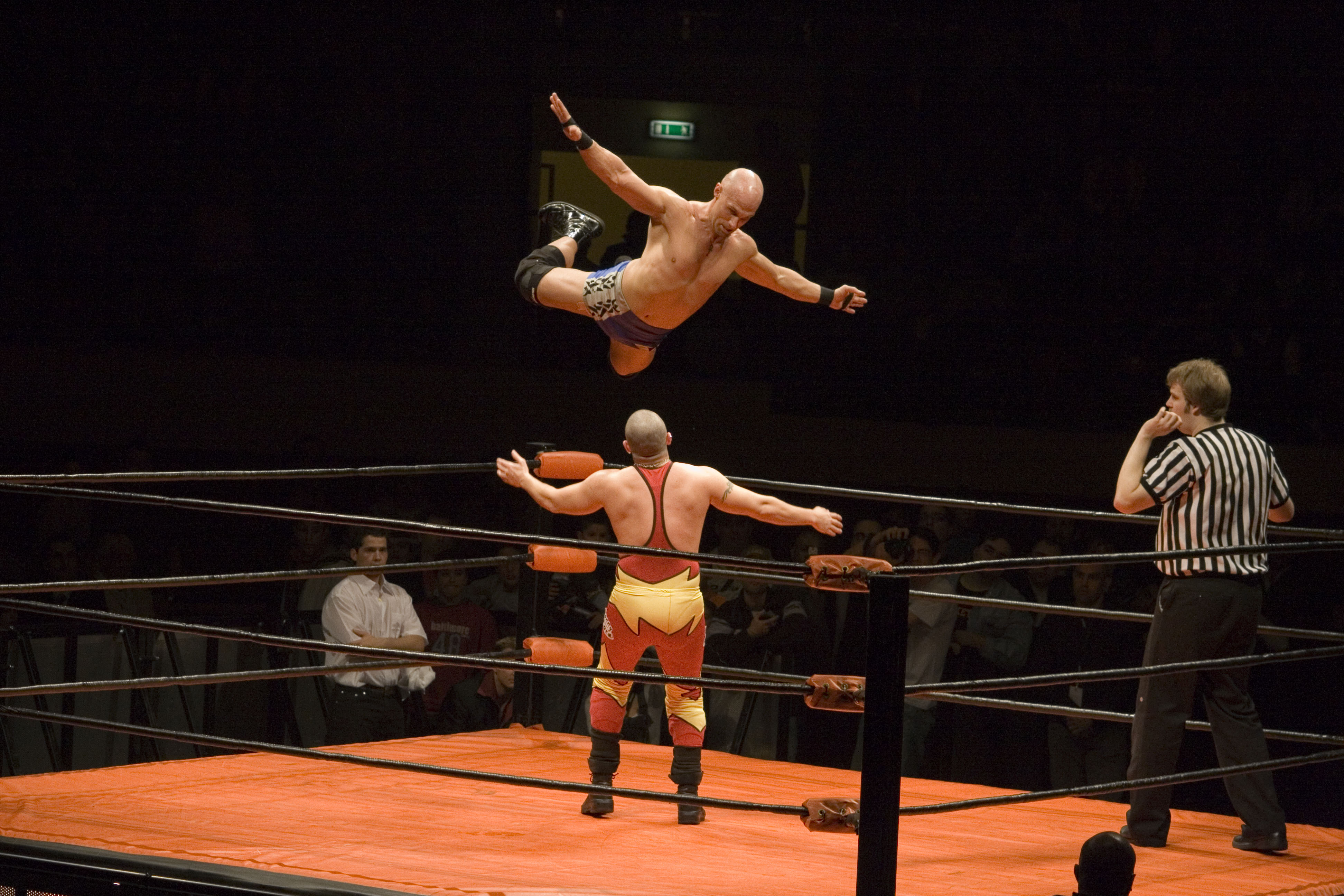 A nice top rope flying cross body. The opponent is prepared to receive the maneuver. Photo taken at APW Impacto Total, a Mixed TNA / APW Houseshow in Lisbon, Portugal.